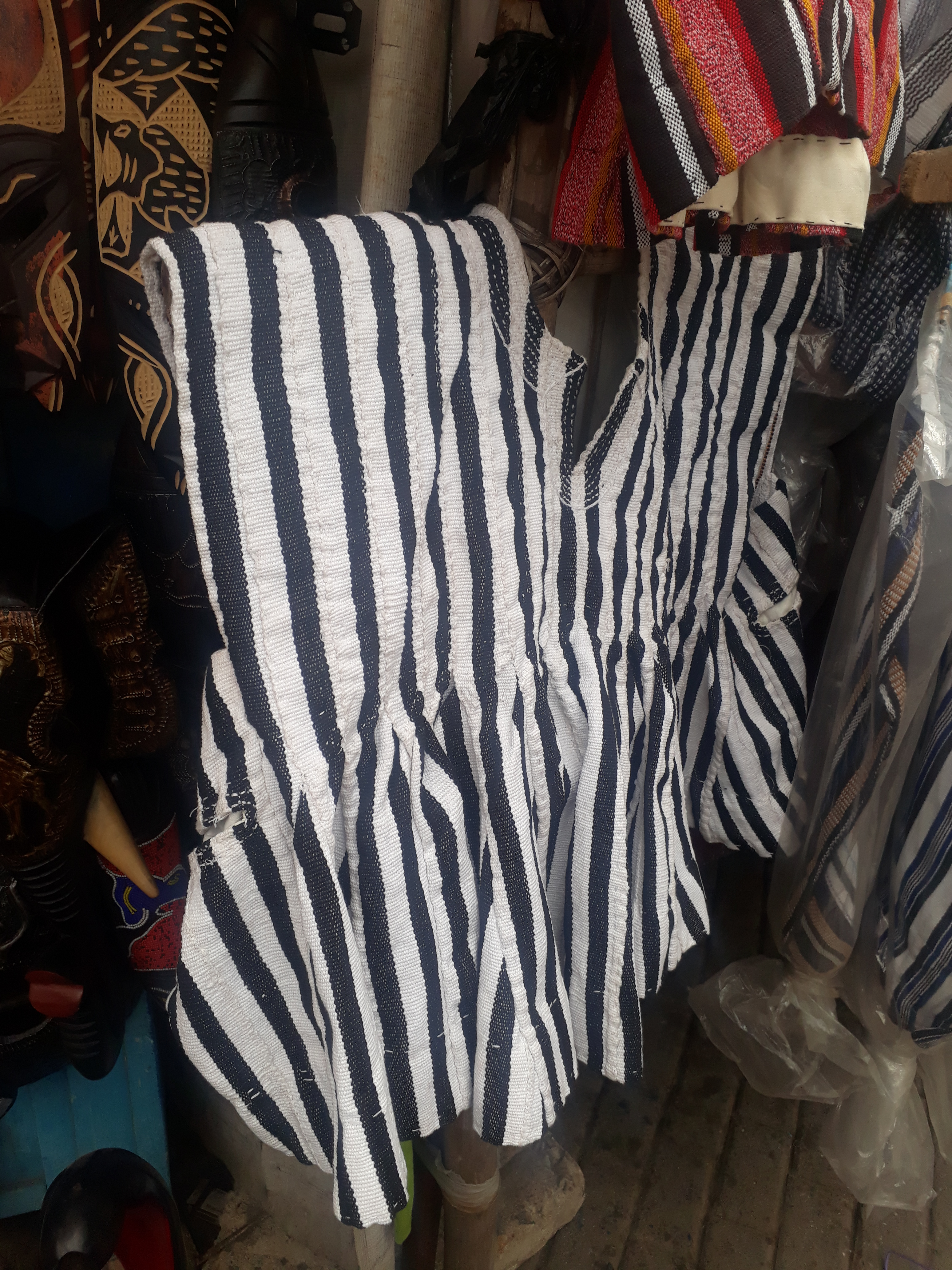 Fugu, a ghanaian traditional attire mostly won in the Northern part of Ghana